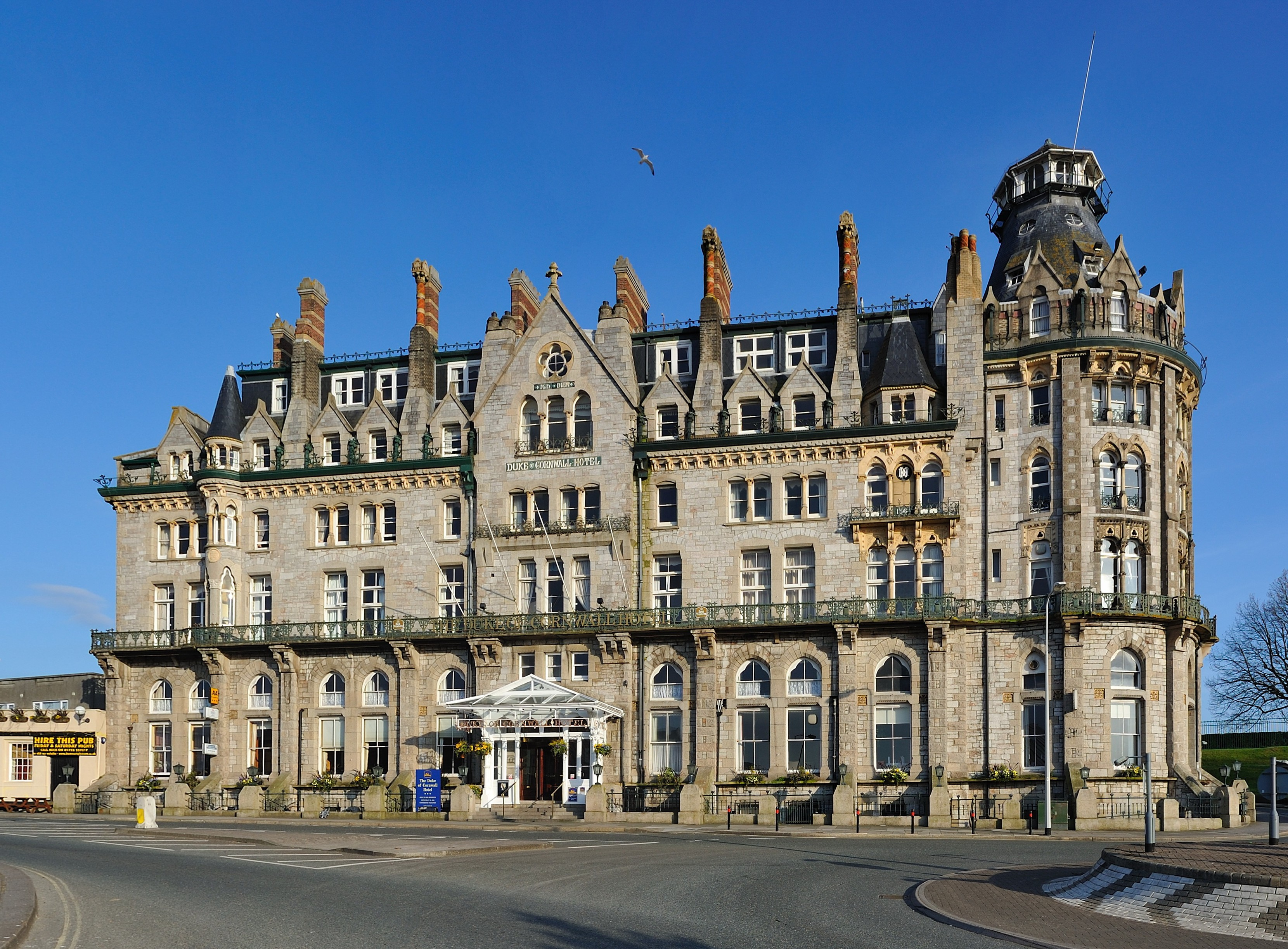 The Duke of Cornwall Hotel in Plymouth, Devon, England.